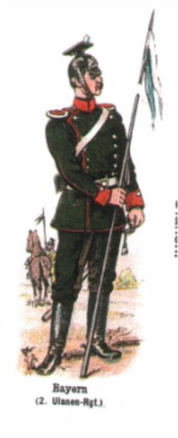 Royal Bavarian 2nd Lancers